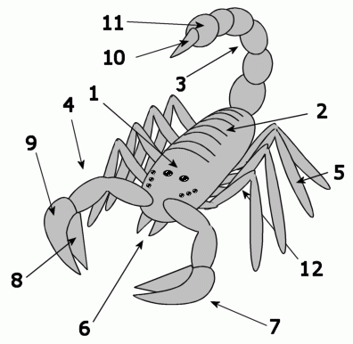 Author: Pasixxxx fi: Skorpioni en: Scorpion